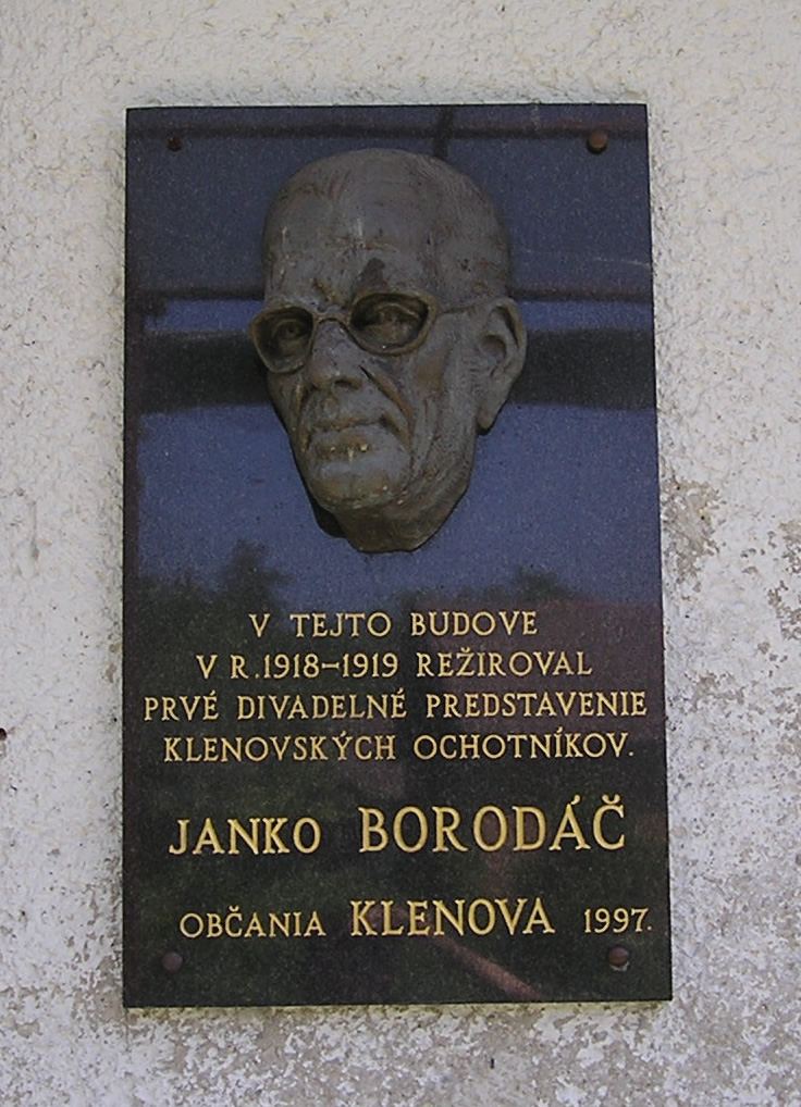 Slovakia, Presov county, Saris region, Klenov village, memorial tablet to Jan Borodac